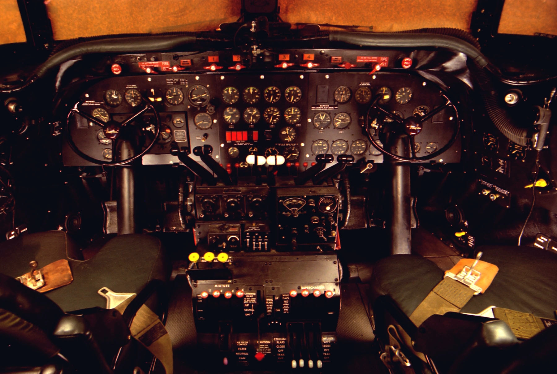 Cockpit view of U.S. President Harry S. Truman's airplane, a Douglas VC-54C Skymaster (s/n 42-107451) nicknamed "The Sacred Cow". The aircraft is today as "42-72252" on display at the National Museum of the USAF. Originally 42-72252 was C-54A-15-DC (c/n 10357/DC88) missing since 11 November 1944 over the South Atlantic. This serial number was used by the VC-54C 42-107451 when it flew President Franklin D. Roosevelt to the Yalta Conference in 1945 (probably out of security reasons).